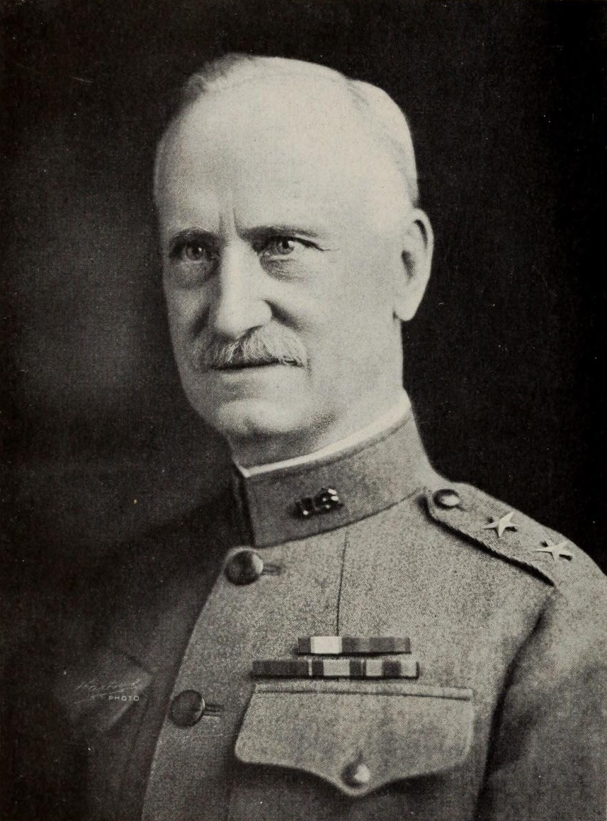 Guy Carleton (US Army Major General)